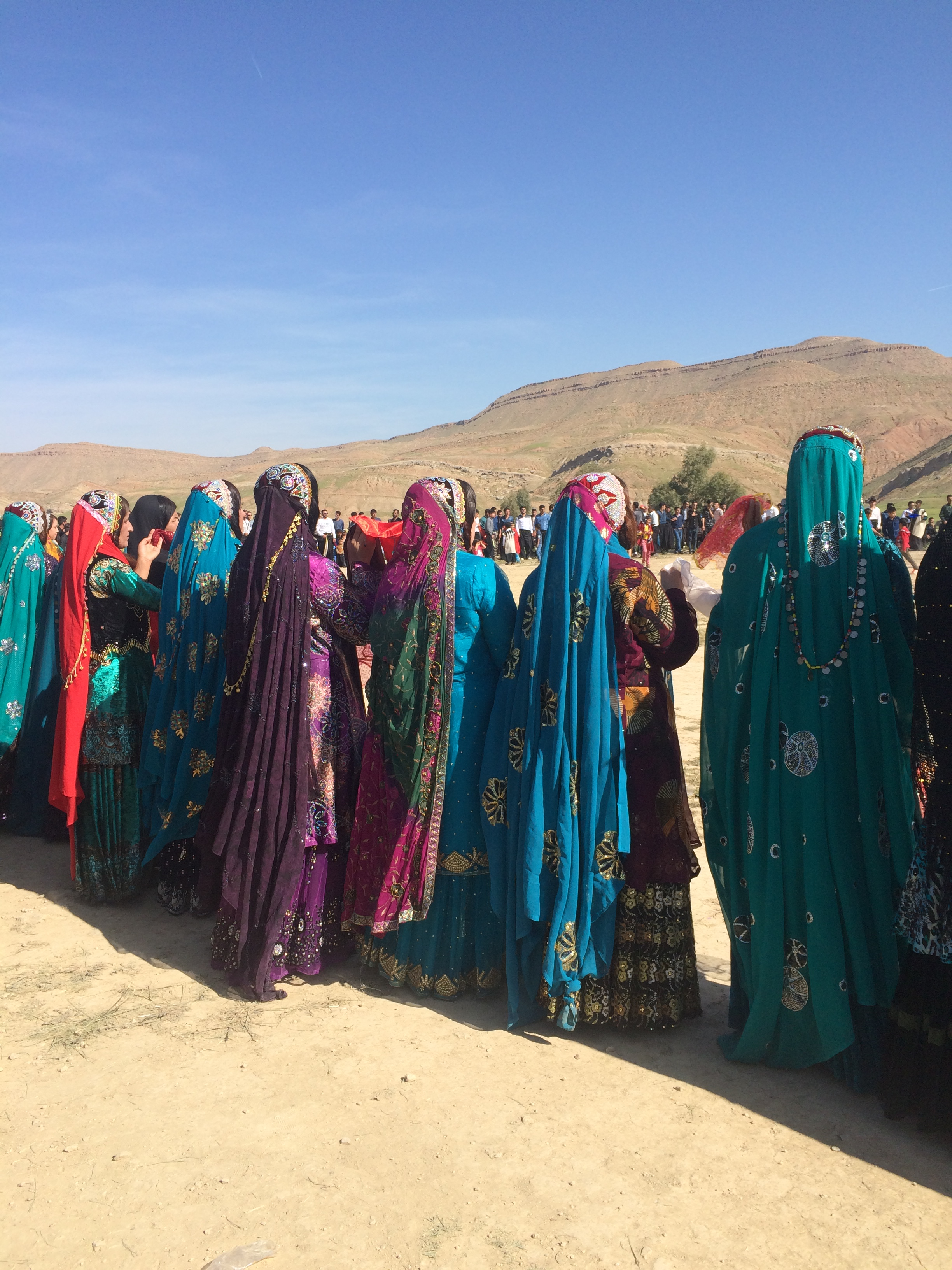 A Bakhtiari wedding in Andika